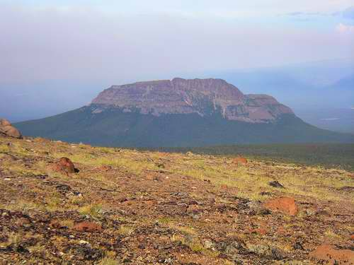 Anahim Peak on the Interior Plateau